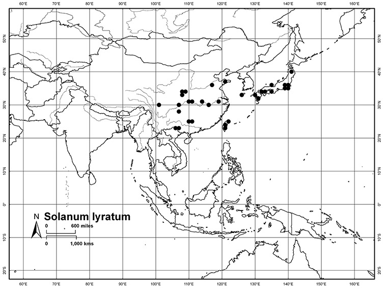 Distribution of Solanum lyratum Thun.